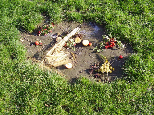 A sacrifice found at the centre of Nine Ladies in Derbyshire ... a stone circle, shortly after the equinox.